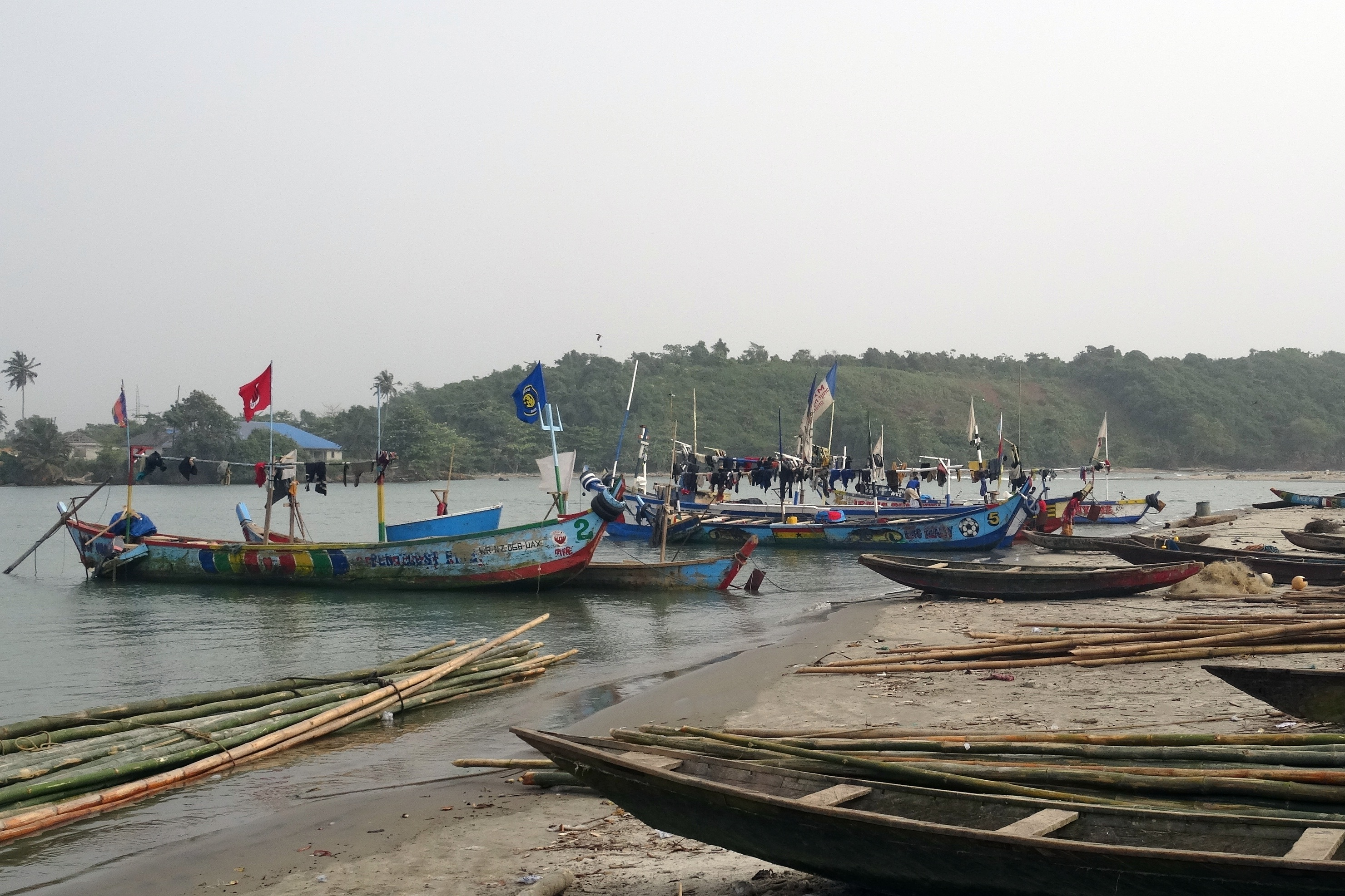 Fishing boats at the estuary of Ankobra River in the Western Region of Ghana